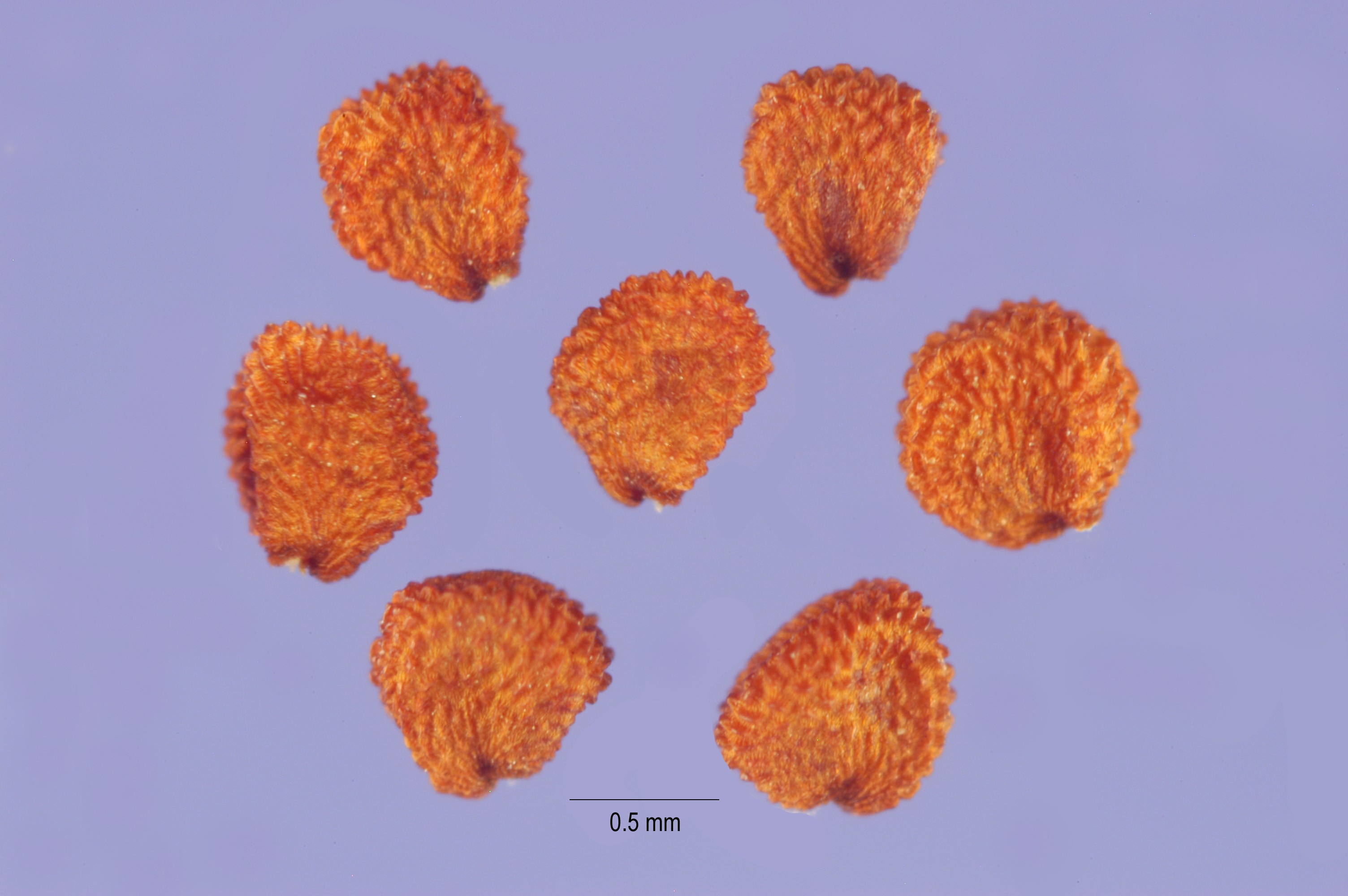 Cerastium arvense seeds. Provided by ARS Systematic Botany and Mycology Laboratory. United States, DC, Washington.